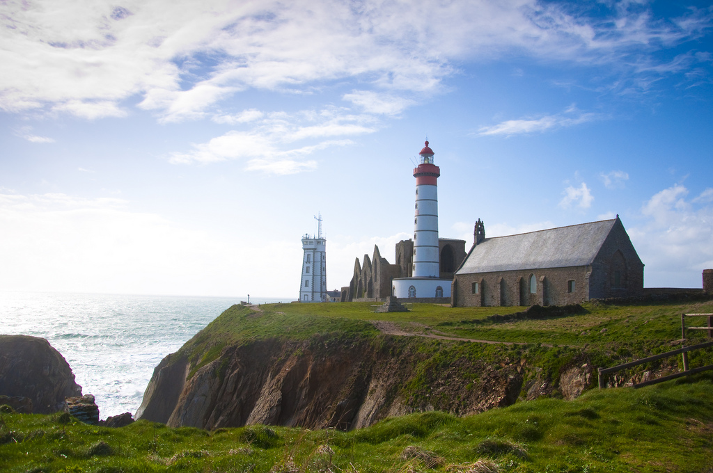 Saint-Mathieu lighthouse